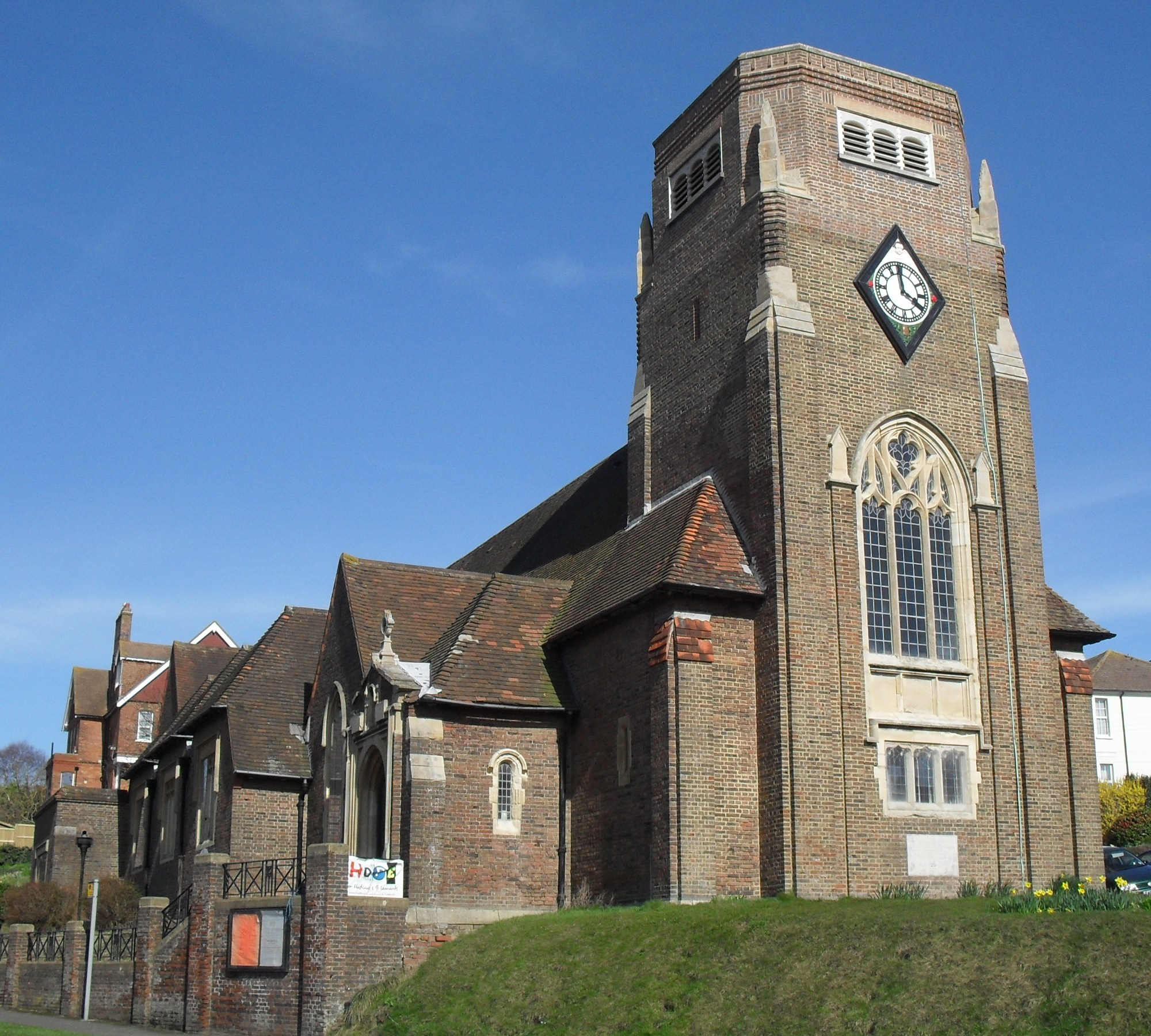 St Ethelburga's parish church, St Saviour's Road, Bulverhythe, St Leonard's-on-Sea, East Sussex, England, seen from the west. Designed by JB Mendham and built in 1929.